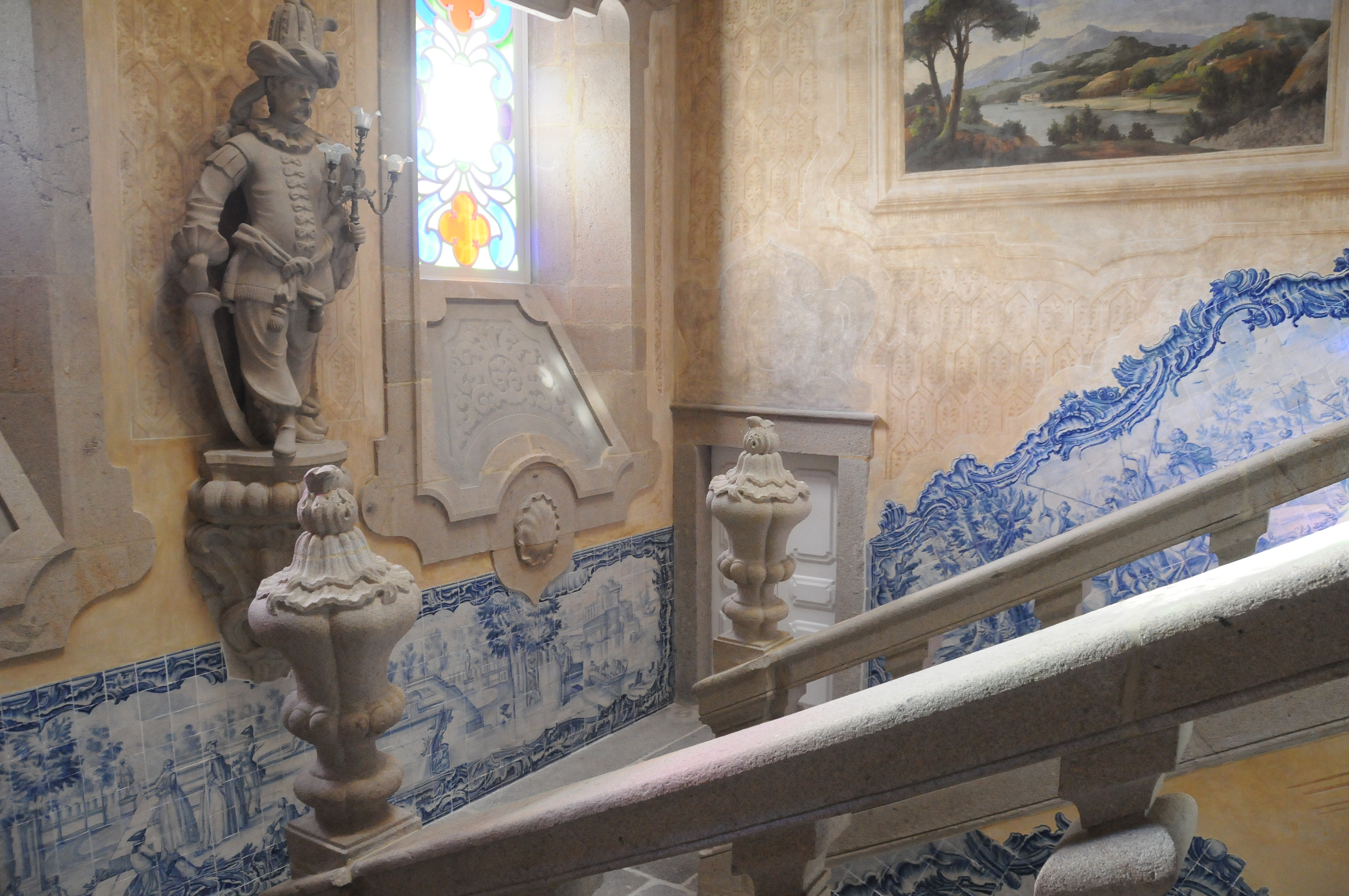 Stairs in Interior of Raio Palace, Braga, Portugal.